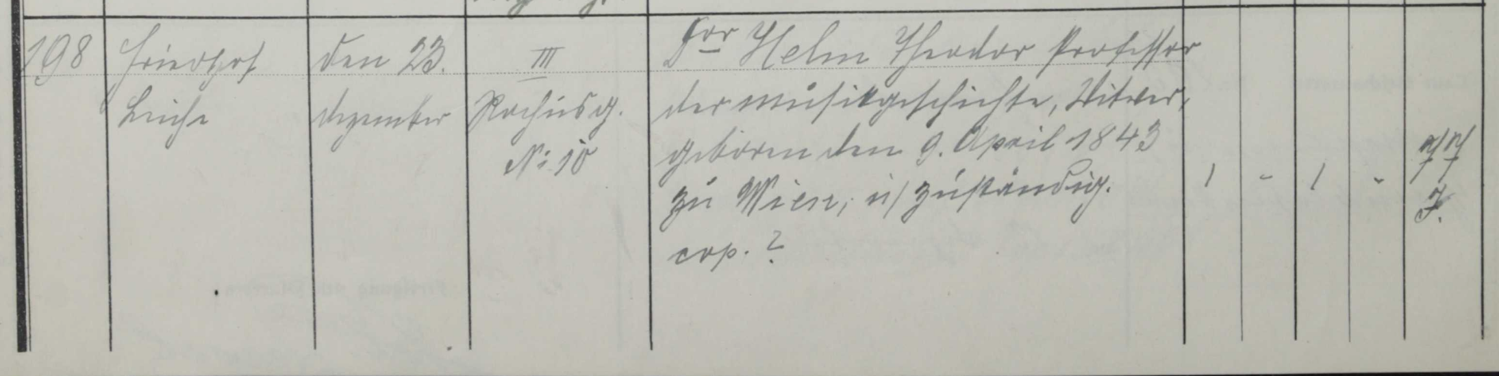 Death Index Record (Sterebuch) for Theodor Helm. (1 of 2)